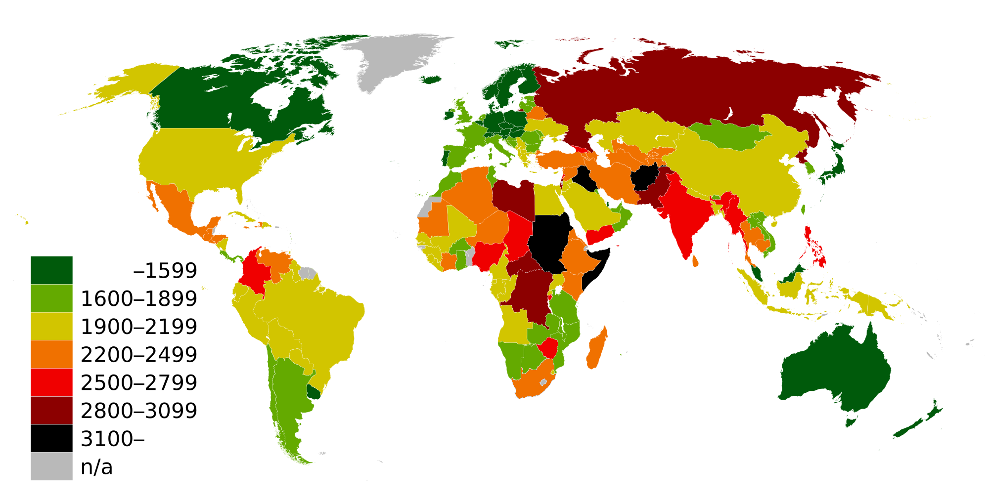 Map of the 2011 Global Peace Index results, fixing missing data for South Africa. Also changed French Guiana to "No Data". The scale means: dark green = most peaceful, black = least peaceful. 'Peacefulness' is understood as 'absence of violence'.